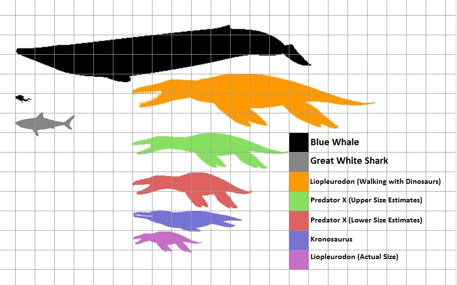 Large Predatory Pliosaur Size in comparison to a Human, Great White Shark, and Blue Whale. I have included Walking with Dinosaurs Liopleurodon to show its vastly inaccurate size.